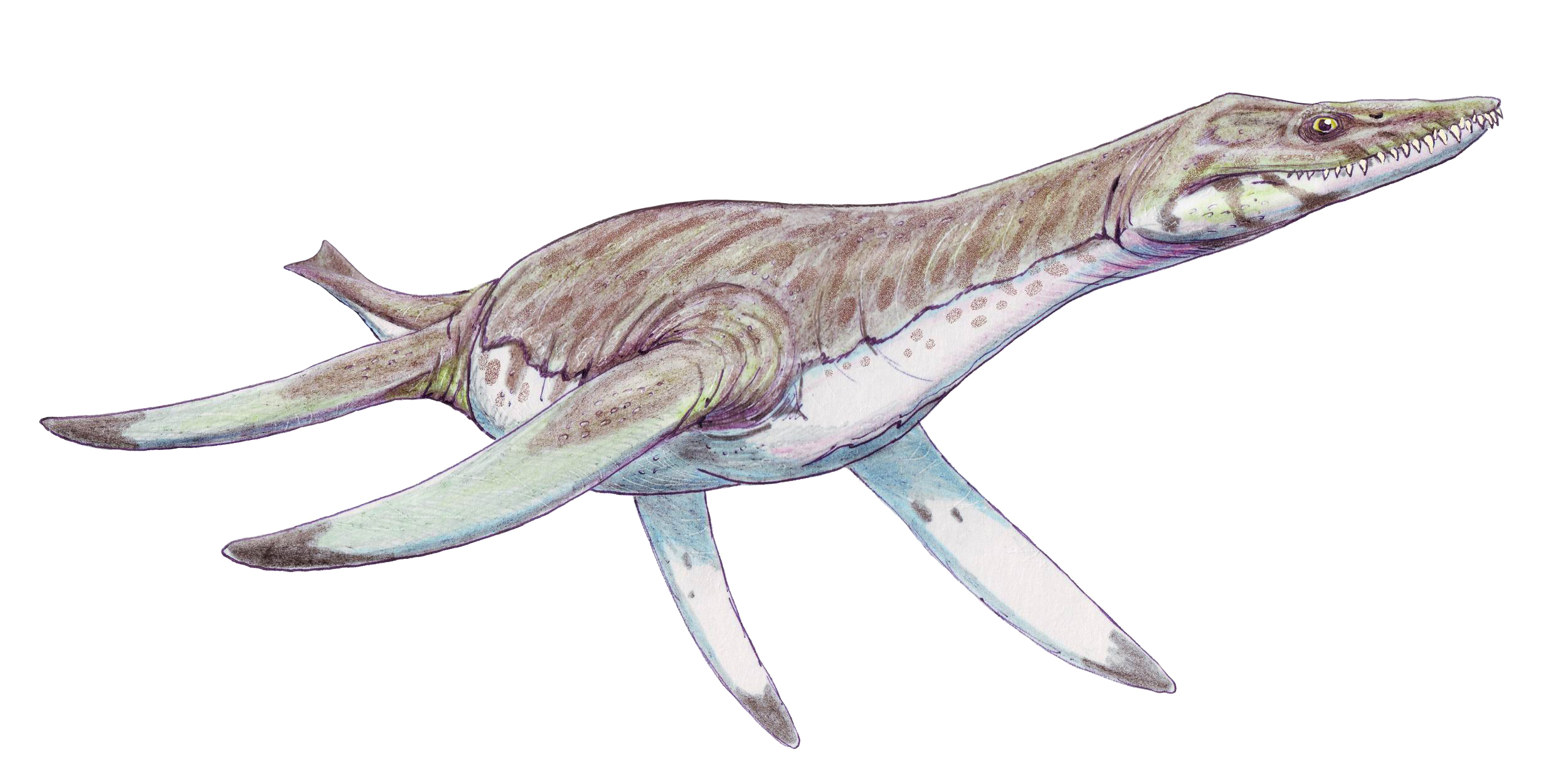 Leptocleidus sp. (based mostly on L. capensis)